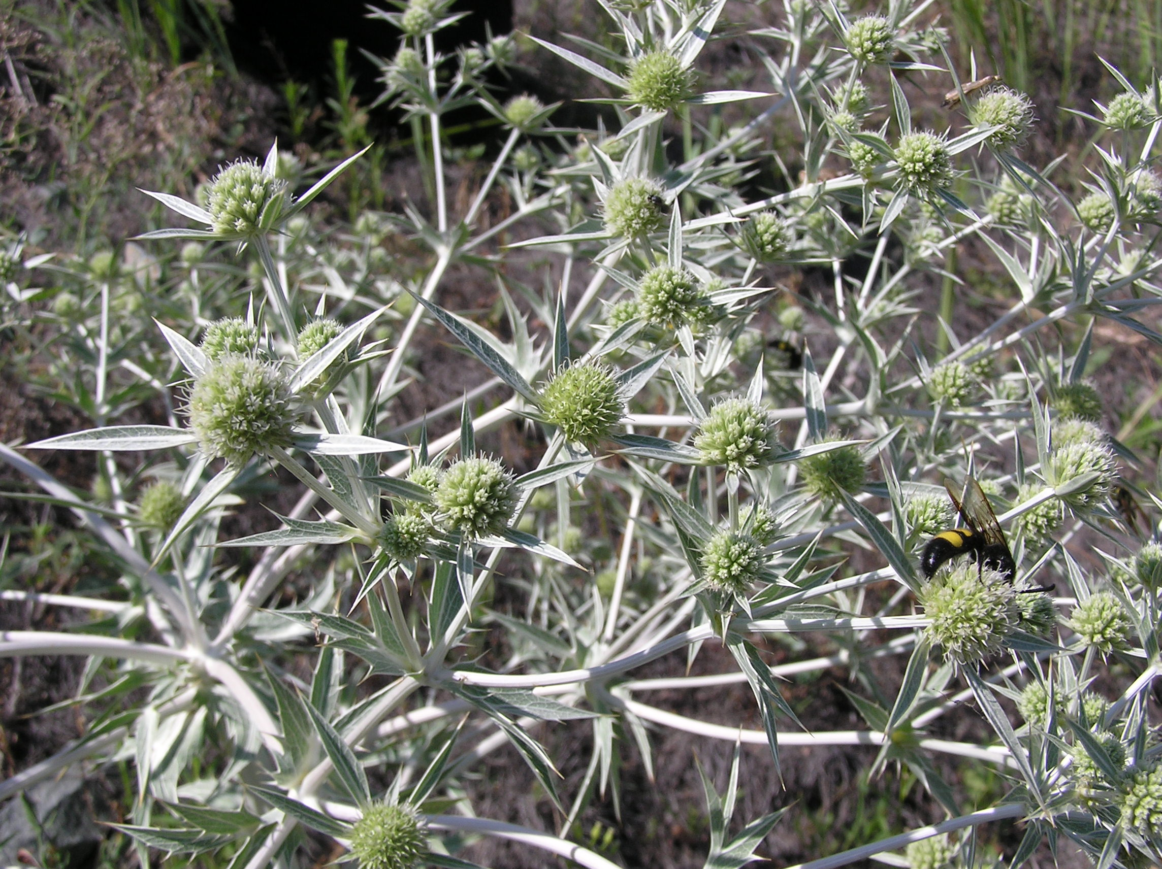 Eryngium campestre L. (Field eryngo); inflorescences. Habitat: а bank of Volgograd Reservoir. Vicinity of Saratov city, Russia.